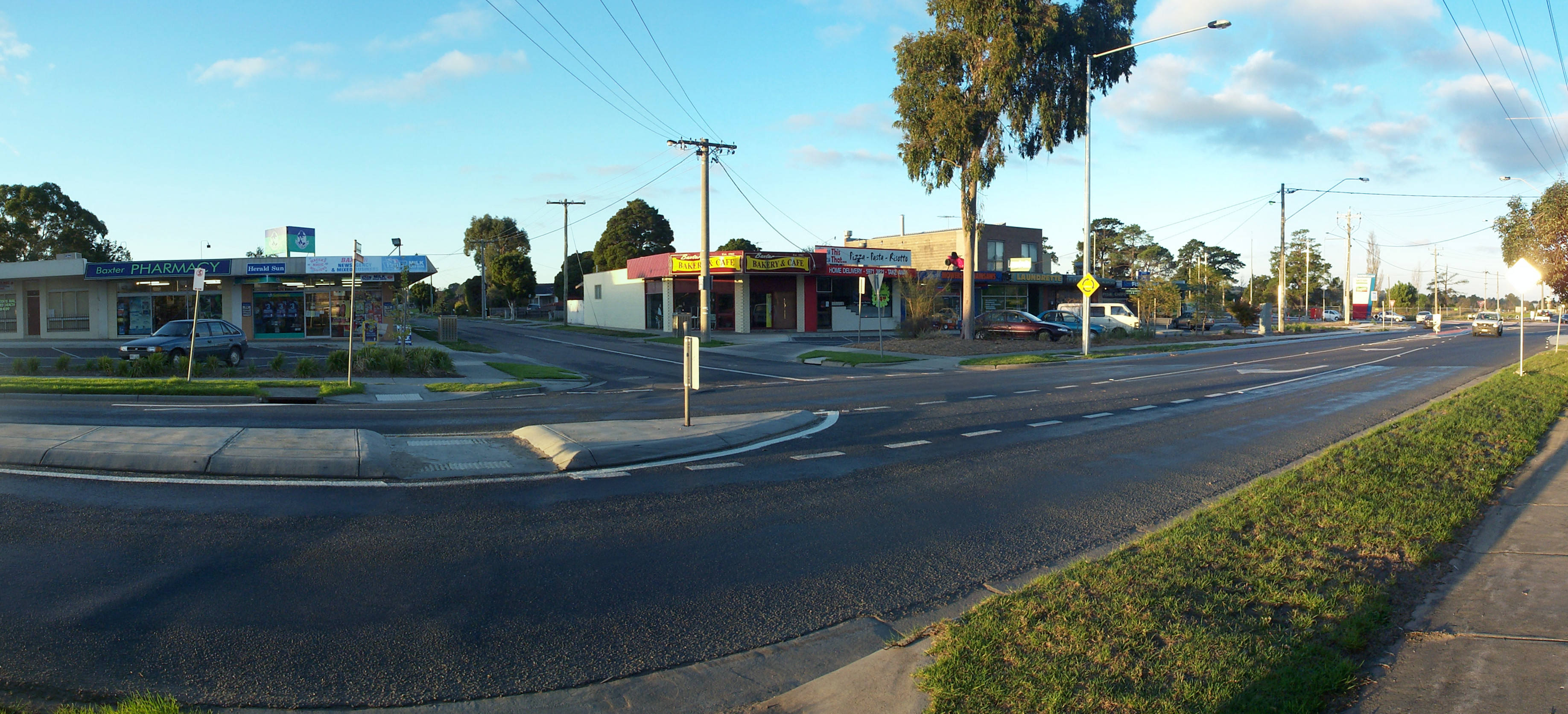 Panorama of Baxter, Victoria main street.